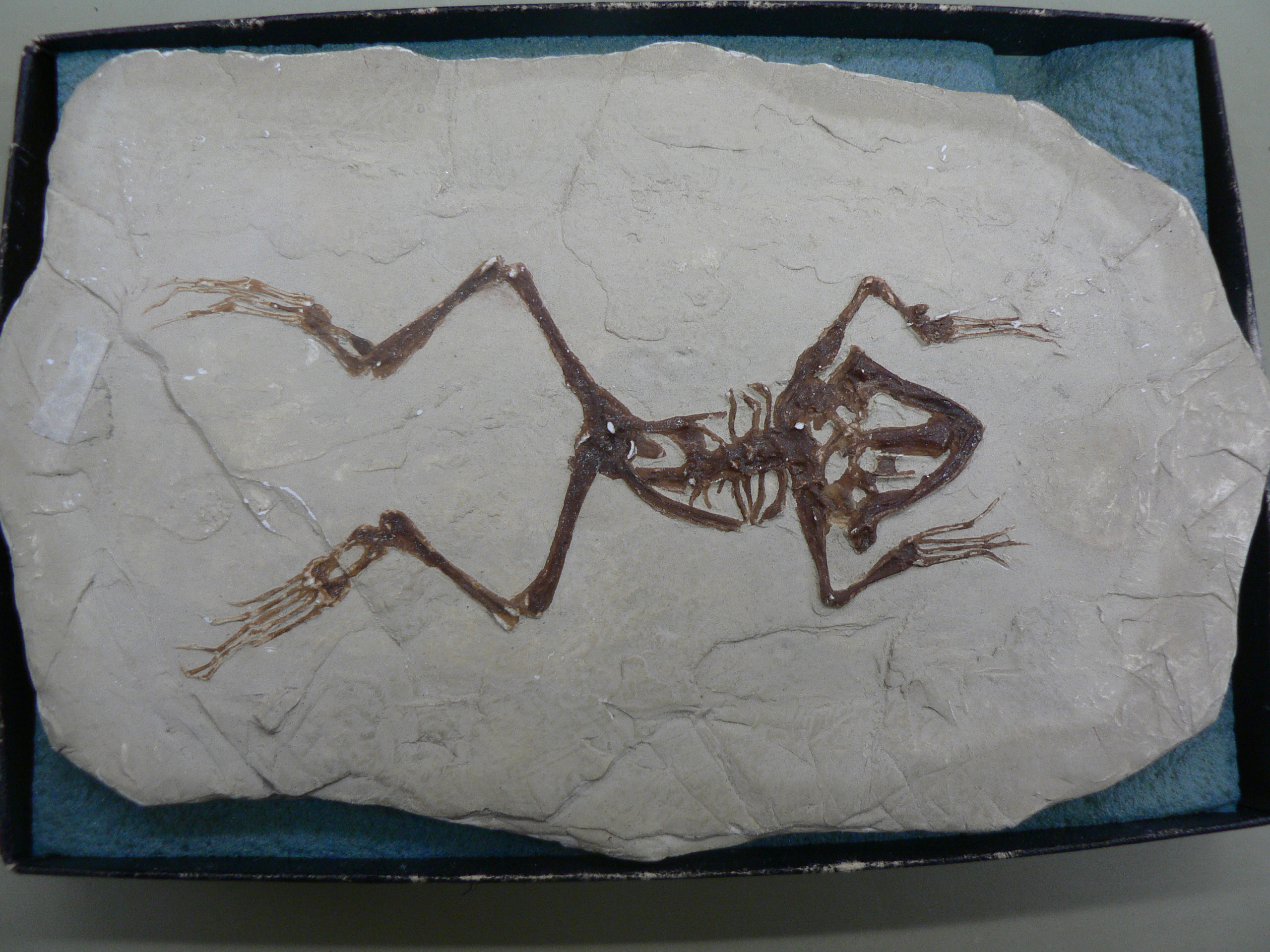 Palaeobatrachus cast. Taken at the University of Alberta Laboratory of Vertebrate Paleontology.